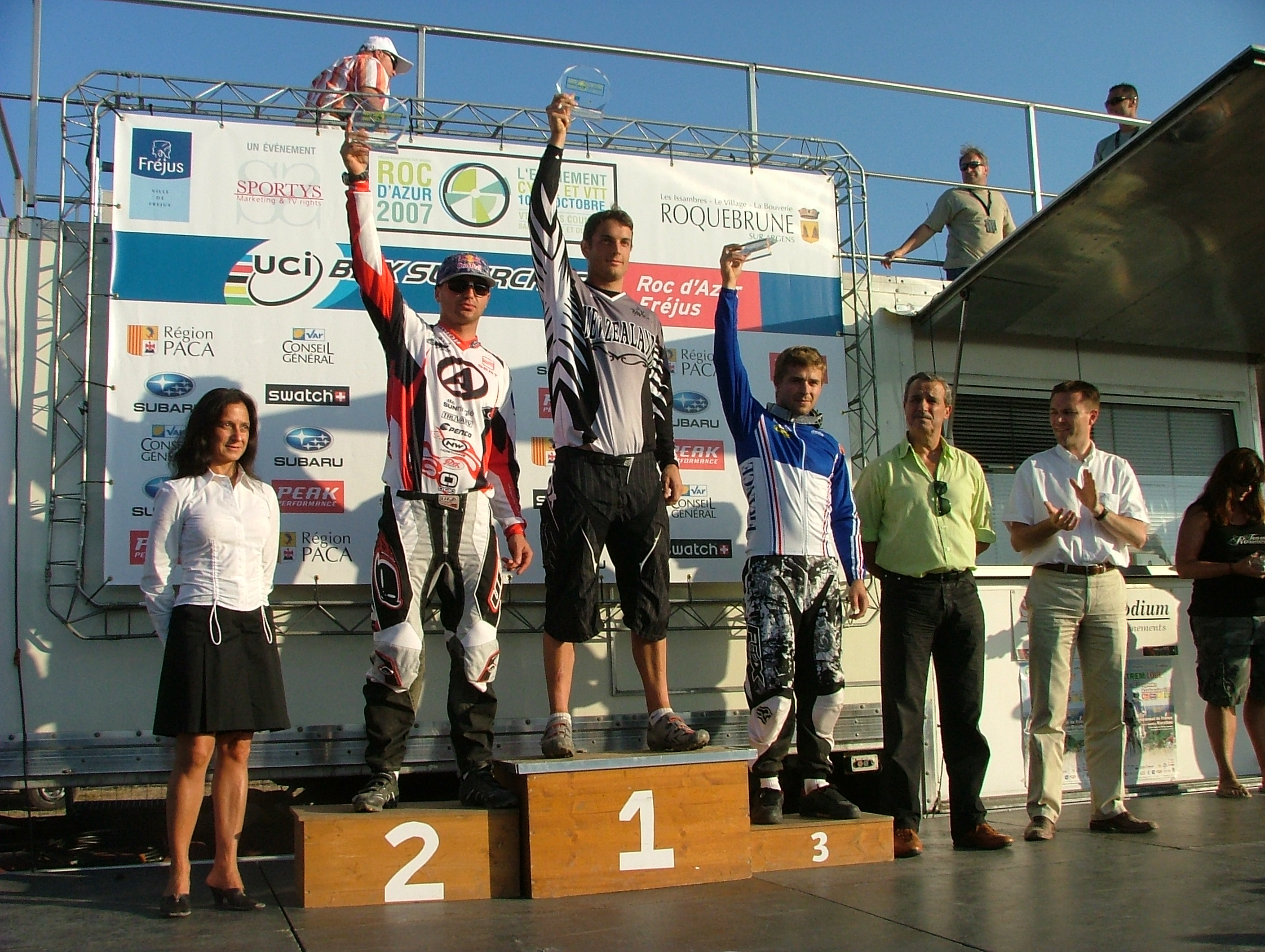 1 Marc Willers (NZL) 2 Michal Prokop (CZE) 3 Pablo Gutierrez (FRA)